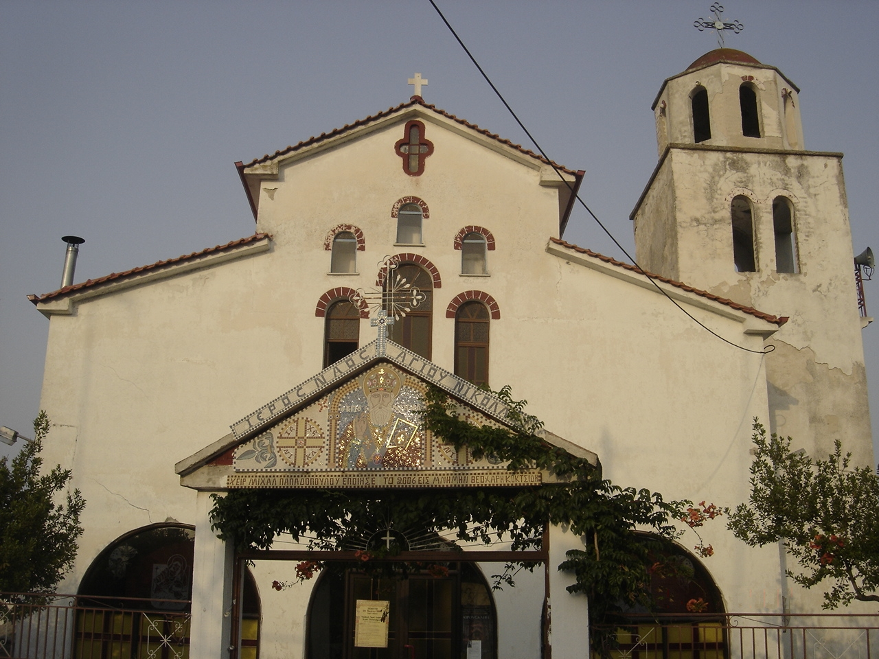 Church of Agios Nikolaos in Sevasti.